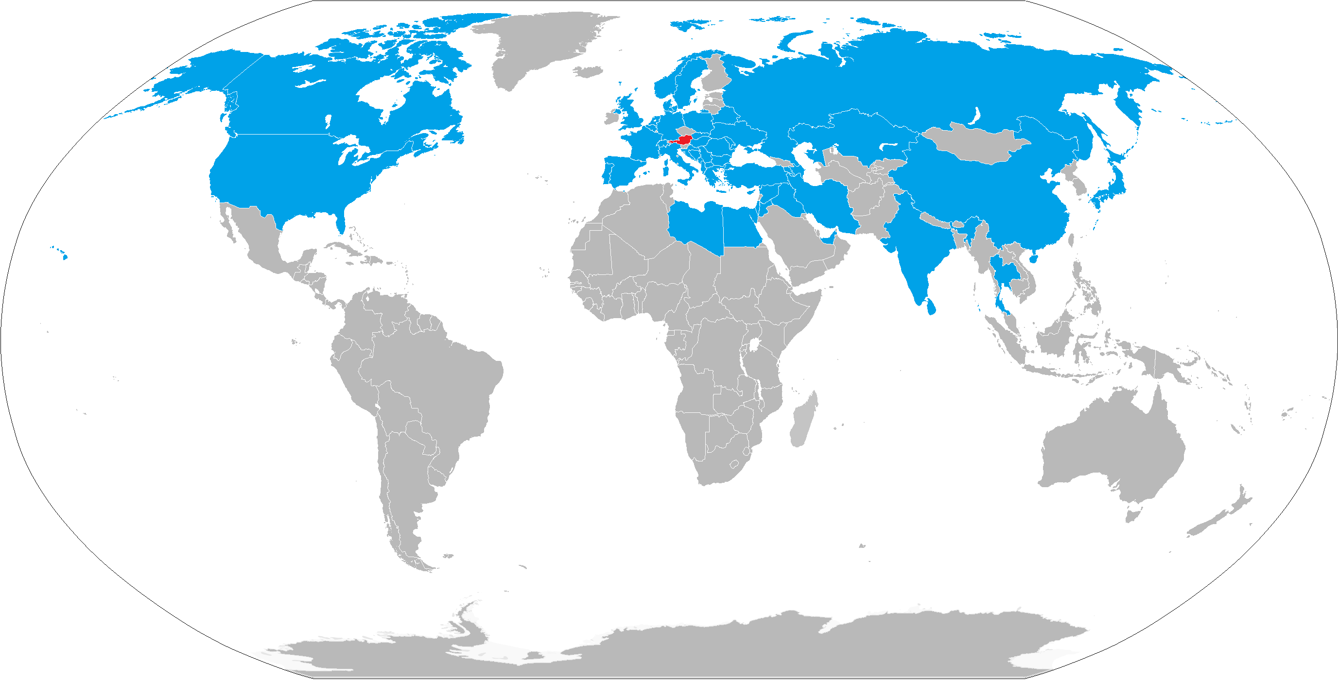 austrian airlines destinations